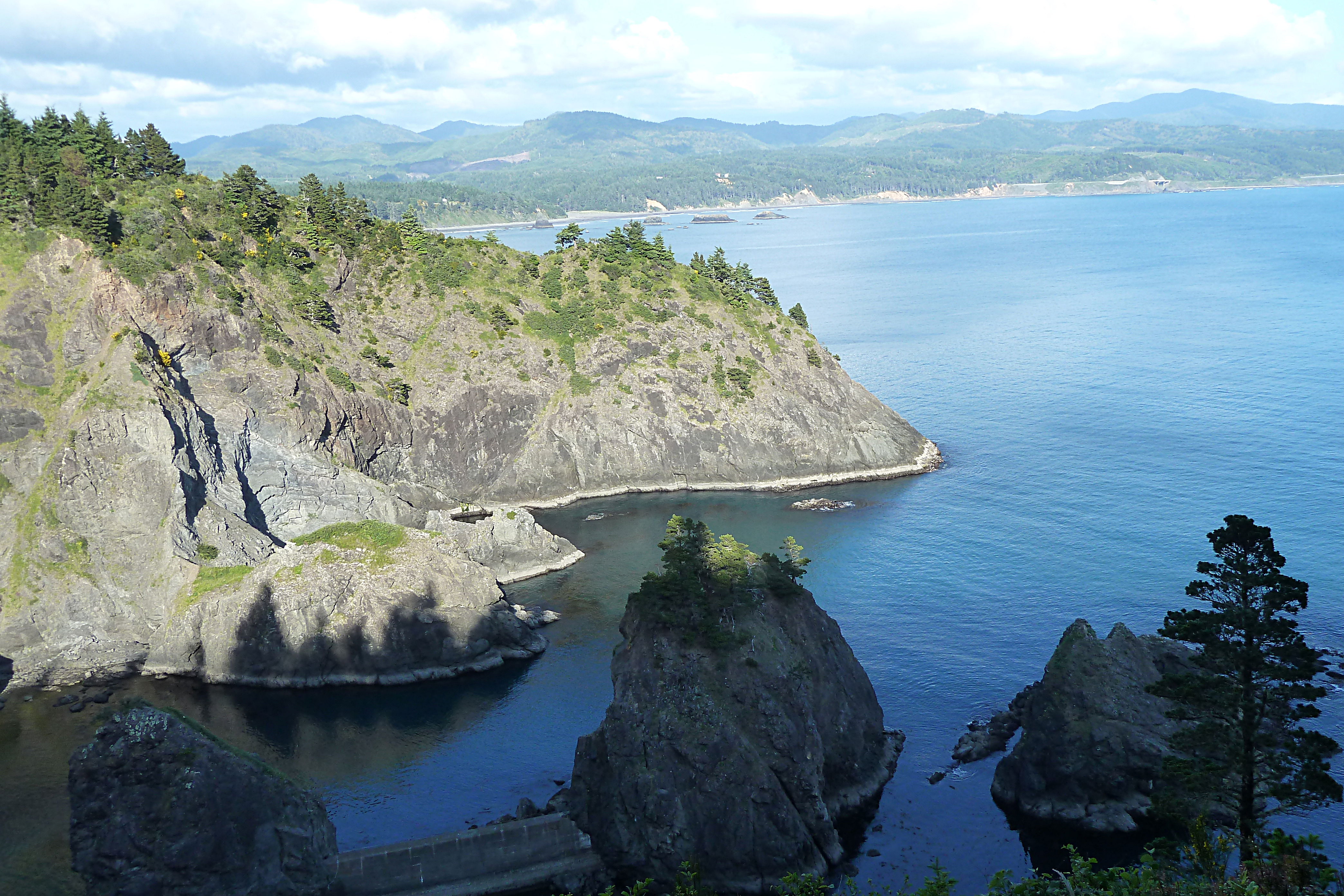 Nellie's Cove - 27 May 2014 - Port Orford Heads State Park, Curry County, OR